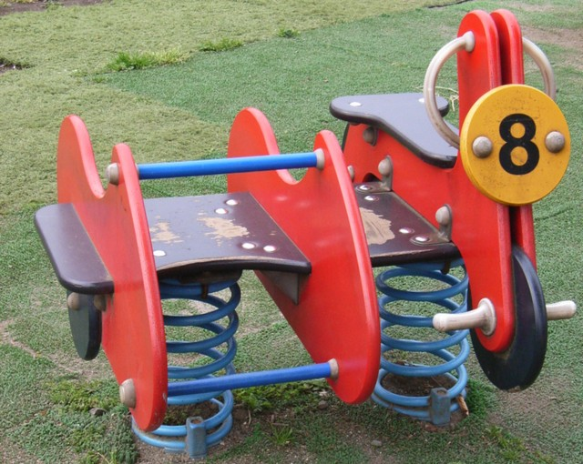 Playing equipment (motor with sidecar)